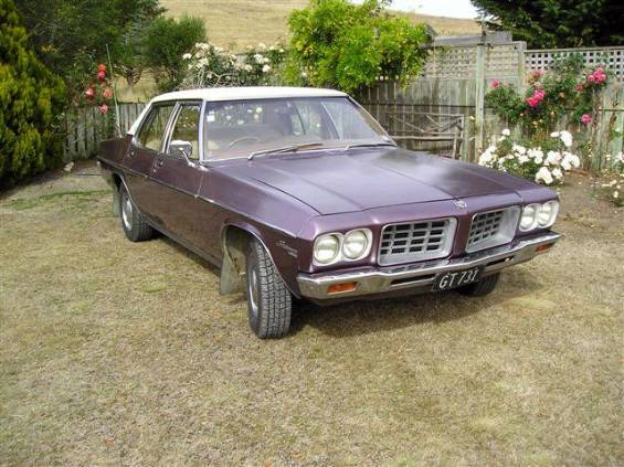 1971–1974 Statesman HQ.